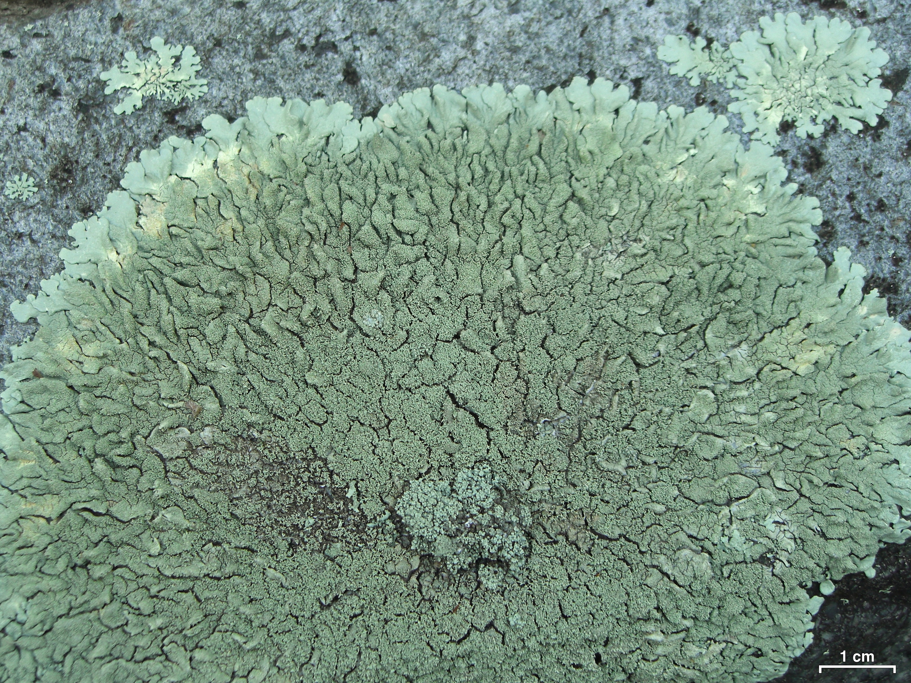 Wicomico and Worchester Counties, Delmarva, 20131128-1130